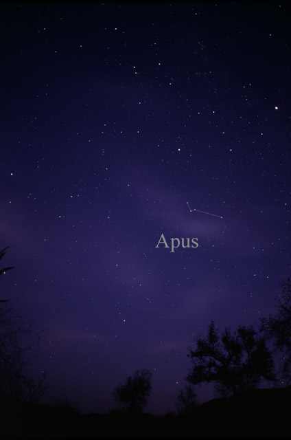 Annotated photo of the constellation Apus, the Bird of Paradise